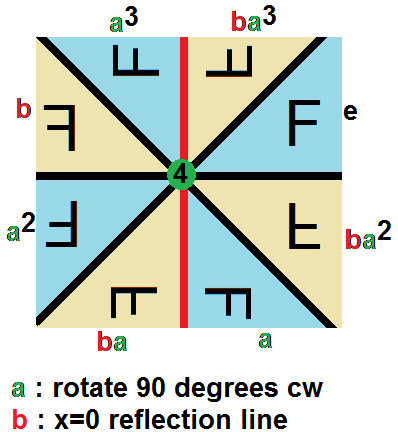 Modified File:Dihedral symmetry domains 4.png with generators of File:Dih4 cycle graph.svg